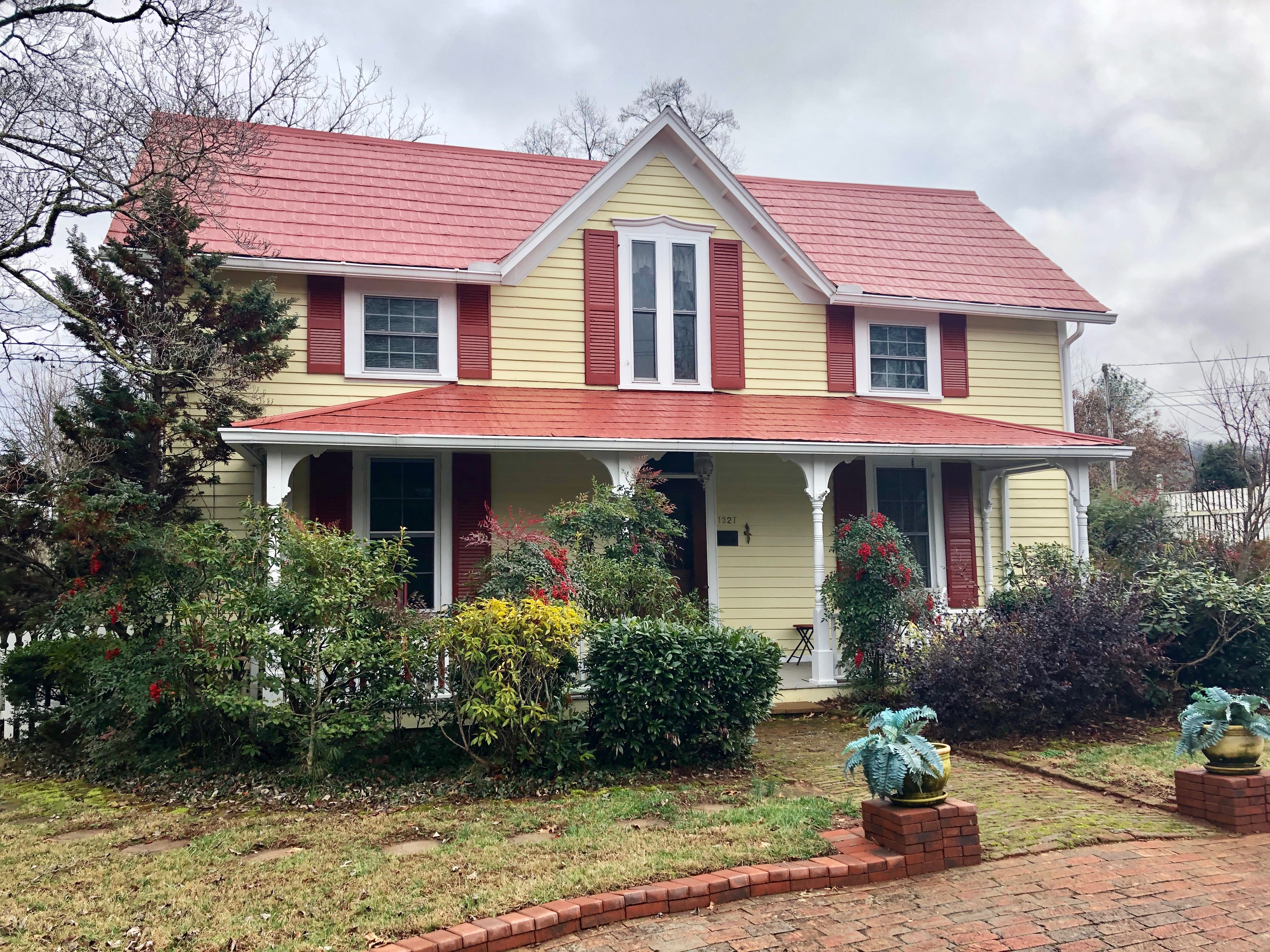 This is the former home of famous North Carolina Politician Walter E. Moore, whom was heavily involved in state politics in the late 19th Century and early 20th Century. Constructed by Moore in 1886, the house is an example of a Folk Victorian take on the Carpenter Gothic style, with a prominent central gabled wall dormer. The one and a half story, T-Plan house has seen some renovations, including replacement windows, but does still maintain quite a bit of historical integrity. The house was somewhere I spent time at during my childhood, as every 4th of July, the annual tradition of Miss Lucy’s Picnic used to occur in the backyard of this house, a local tradition which dated back to the 1940s, and now takes place at the nearby Hedden House. The house, currently for sale, was listed on the National Register of Historic Places in 1990 due to its architectural significance, as well as its association with a prominent historical figure.